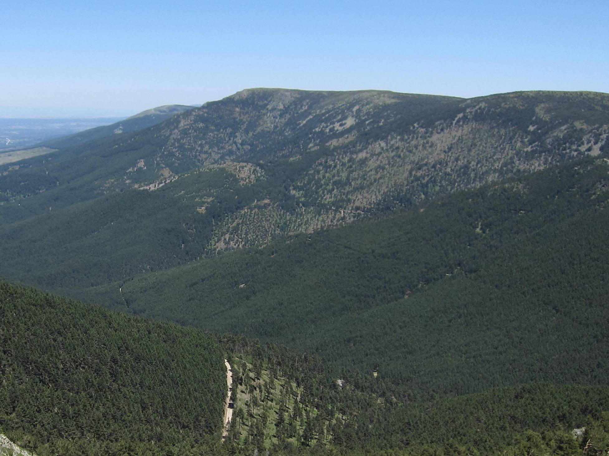 West face of Reajo Alto seen from El Nevero (Guadarrama mountain range, central Spain).